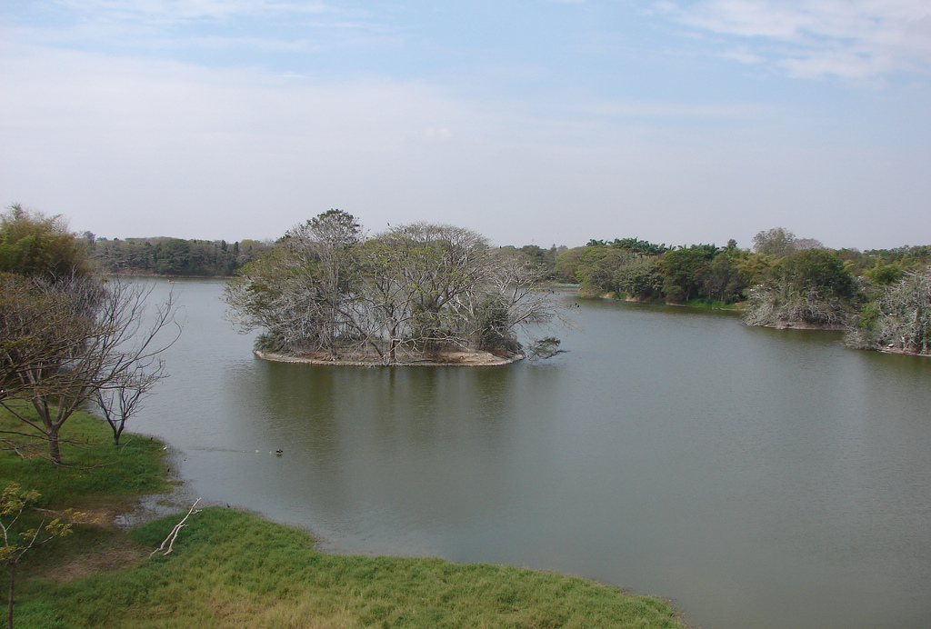 This is a photo of the Karanji lake in Mysore, India